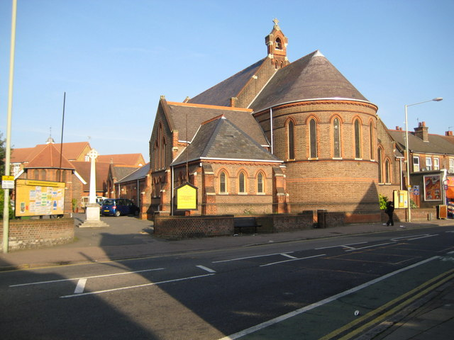 Christ Church parish church, St Albans Road, Watford, Hertfordshire, seen from the southeast. Designed by Callowland, Hudson and Hunt and built in 1904 by the local firm of Darvills. Consecrated in 1905 as a chapel of ease to St Andrew's (693702), then made a parish in its own right in 1909. Christ Church replaced a corrugated iron "tin tabernacle" chapel that had been built in 1896.